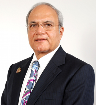 This is a photograph of Mr.Ajai Chowdhry, Chairman, HCL Infosystems.